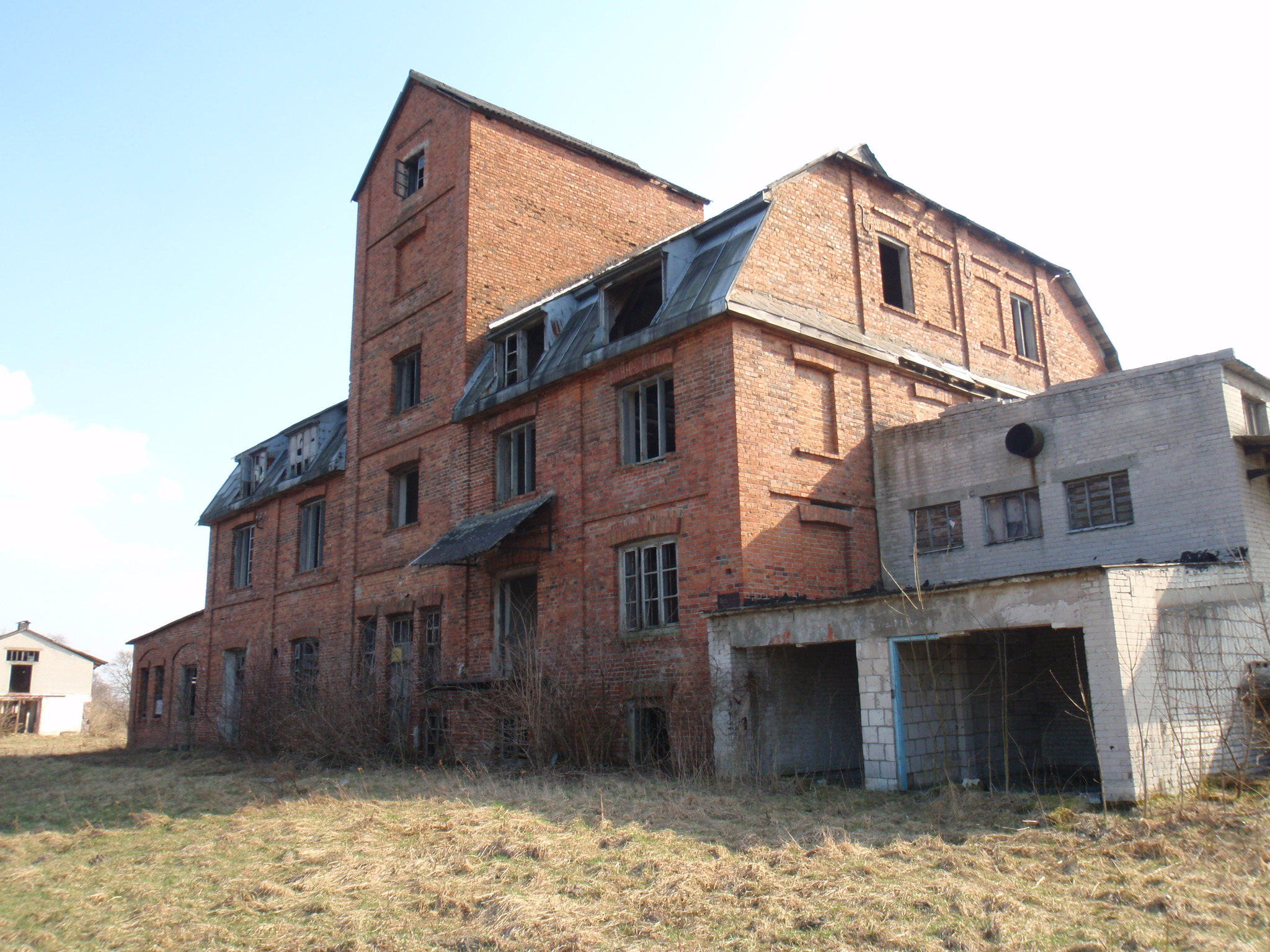 Trzebień, Kozienice county